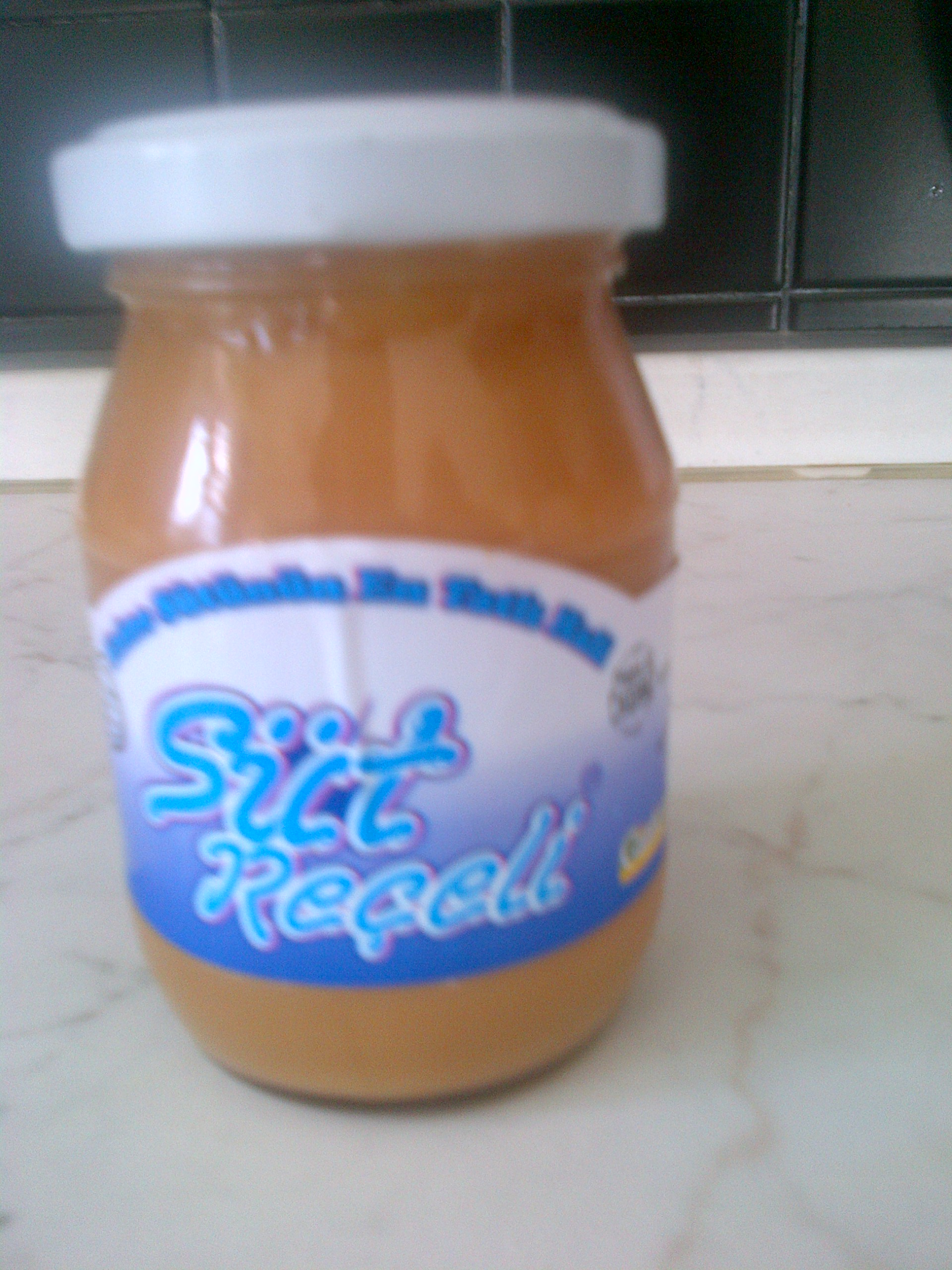 Süt reçeli, literally "milk jam", from Turkey. (Dulce de leche / manjar )